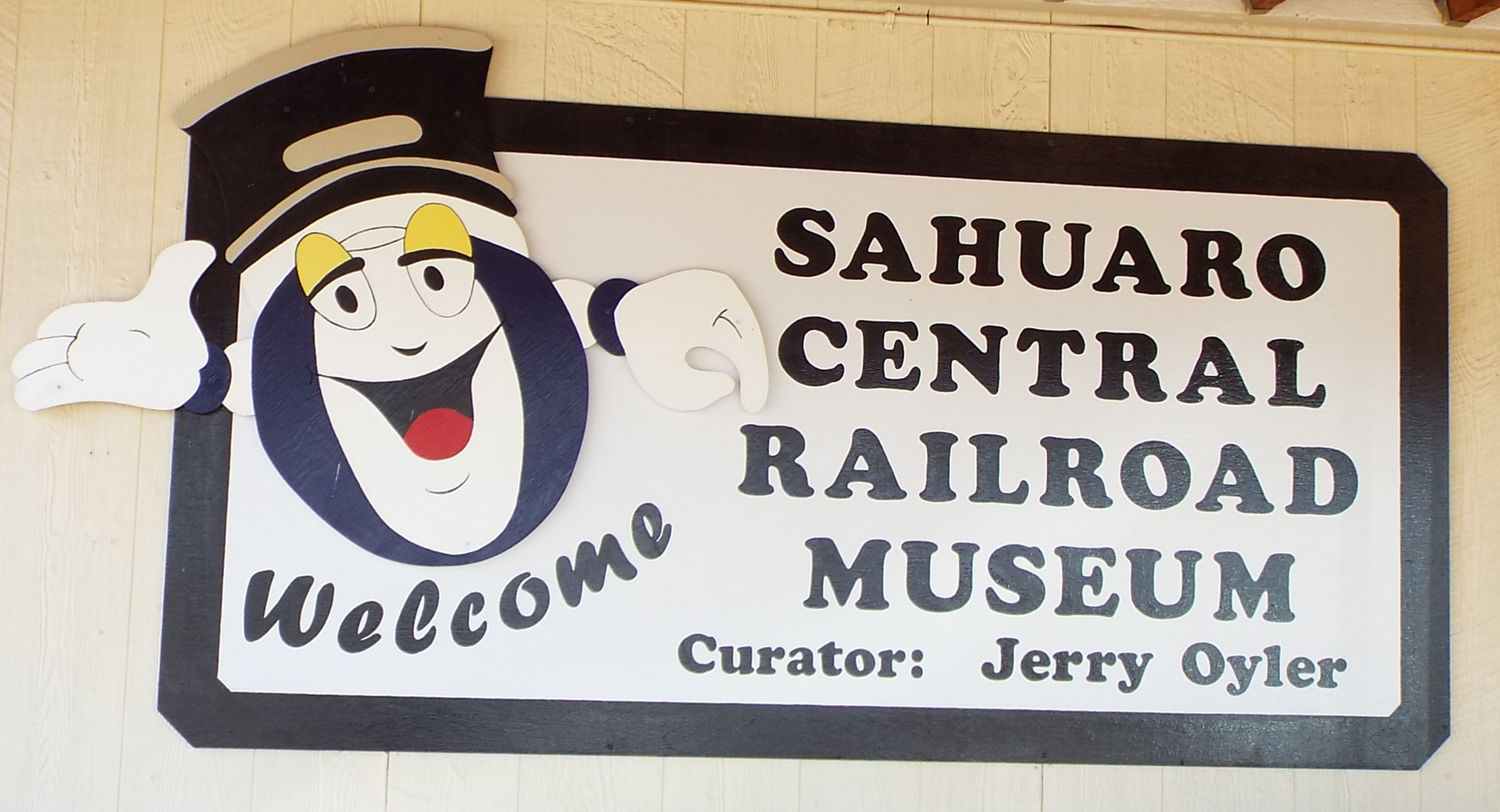 Sahuaro Central Railroad Museum sign in Glendale, Az.